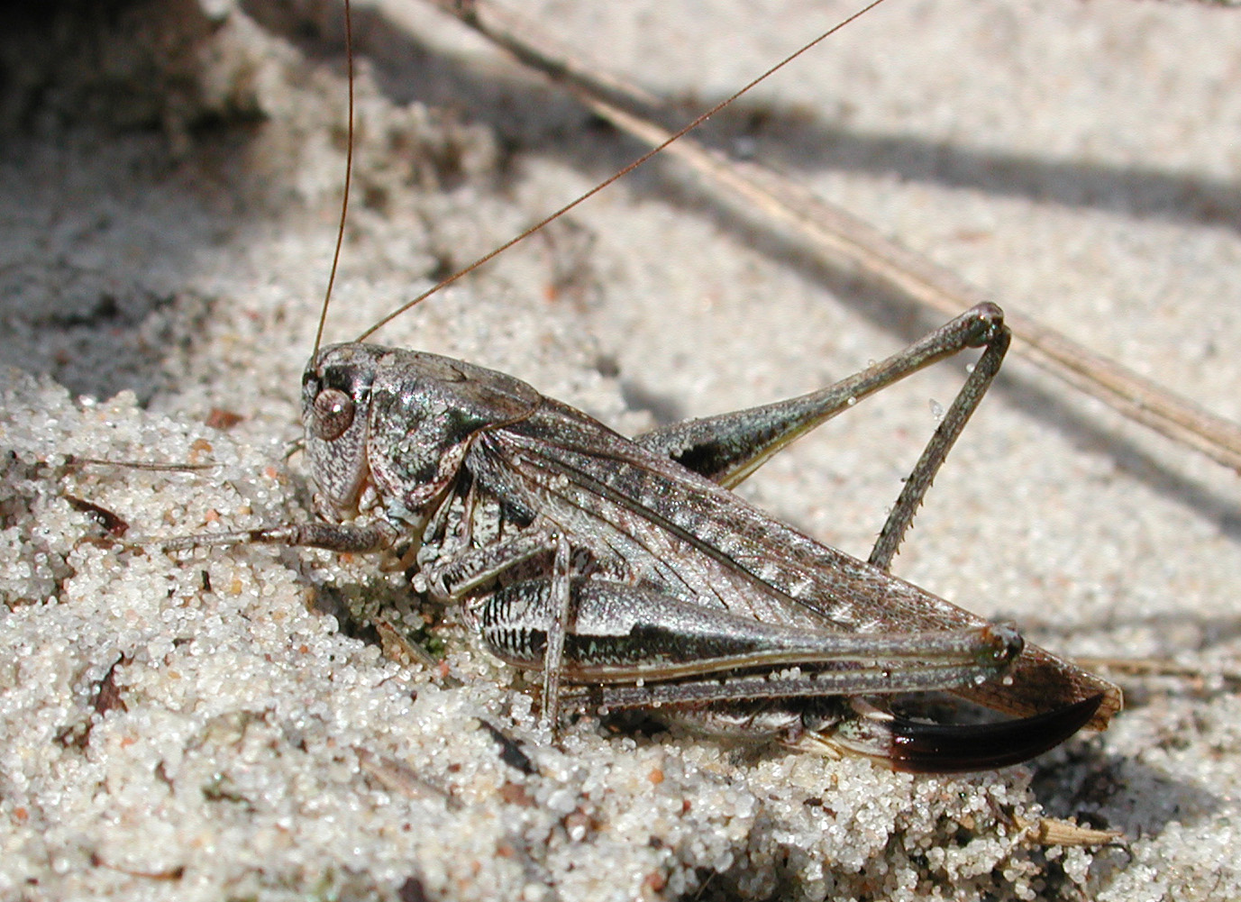 Platycleis albopunctata, female, Westliche Beißschrecke, Grey Bush Cricket, on beach dune near Zinnowitz, Usedom, Germany